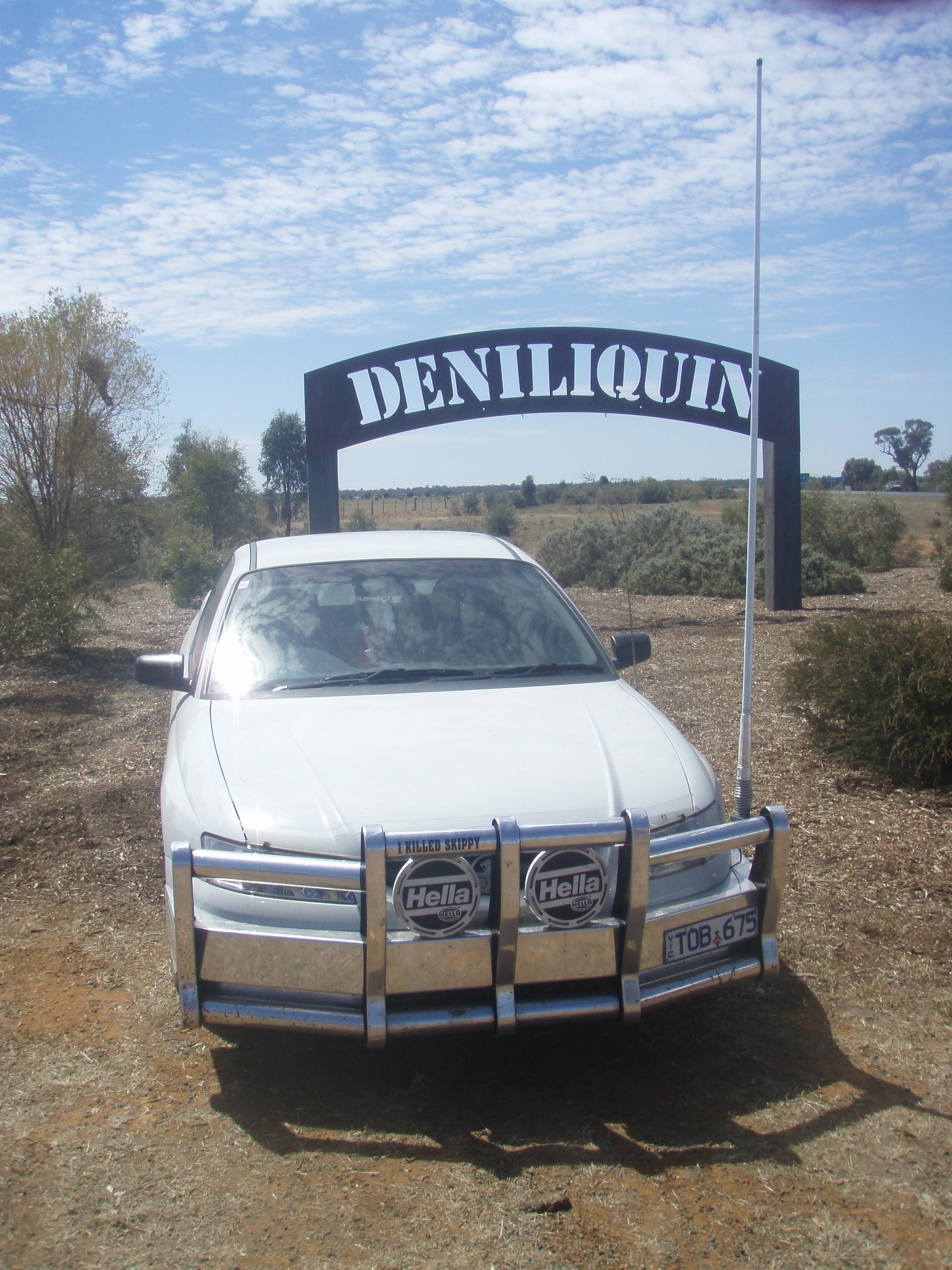 2004–2007 Holden VZ Ute with aftermarket bullbar, aerial and "Hella" spotlights, photographed in front of a Deniliquin sign, in Deniliquin, New South Wales, Australia.